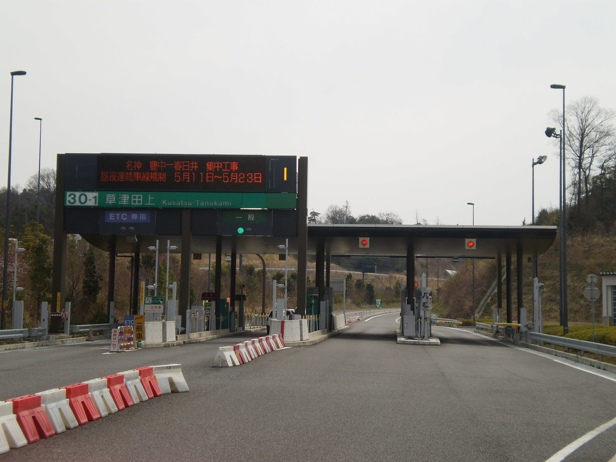 Kusatu-Tanakami interchange of Shin-Meishin Expressway. I took this image at Noji-cho Kusatsu City Shiga Pref., Japan.